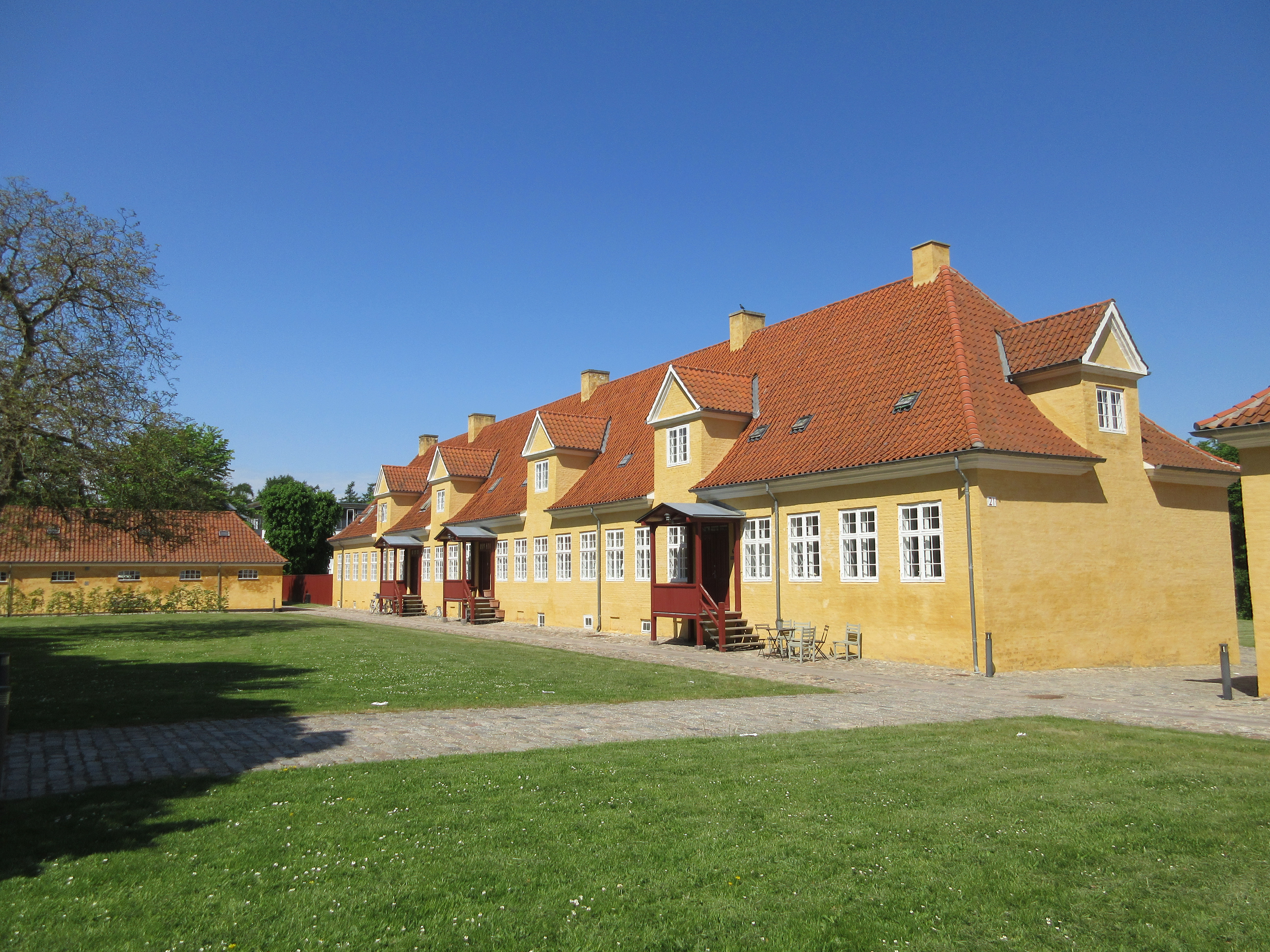 The northwestern residential wing of the Jægergården complex as seen from the central lawn in Gentofte Municipality, Denmark